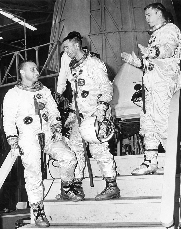 Astronauts for NASA's Apollo missions Virgil I. Grissom, command pilot for the first Apollo mission, R. Walter Cunningham and Russell L. Schweickart, backup navigators for the first Apollo mission are undergoing tests at the North American Aviation plant.